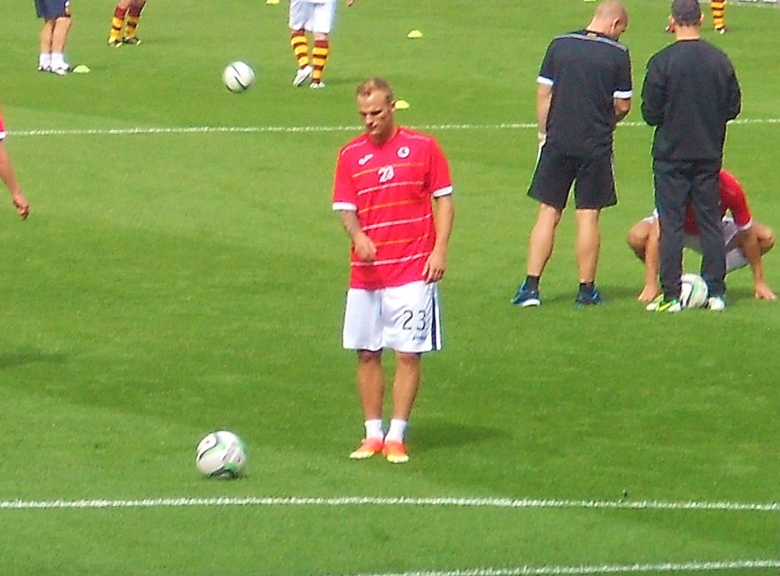 Higginbotham footballer